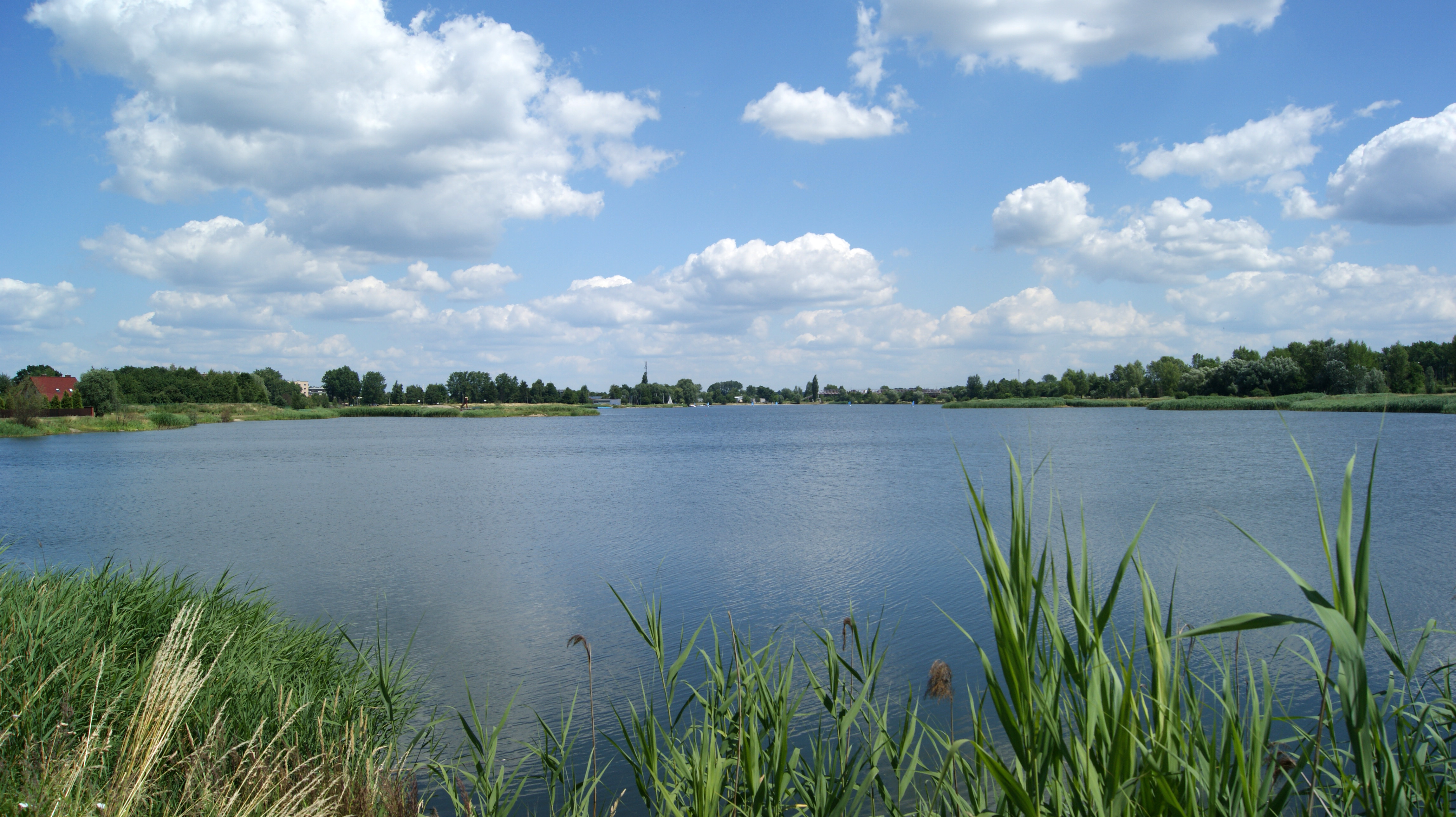 Bagry Lake (view from West), Krakow, Poland